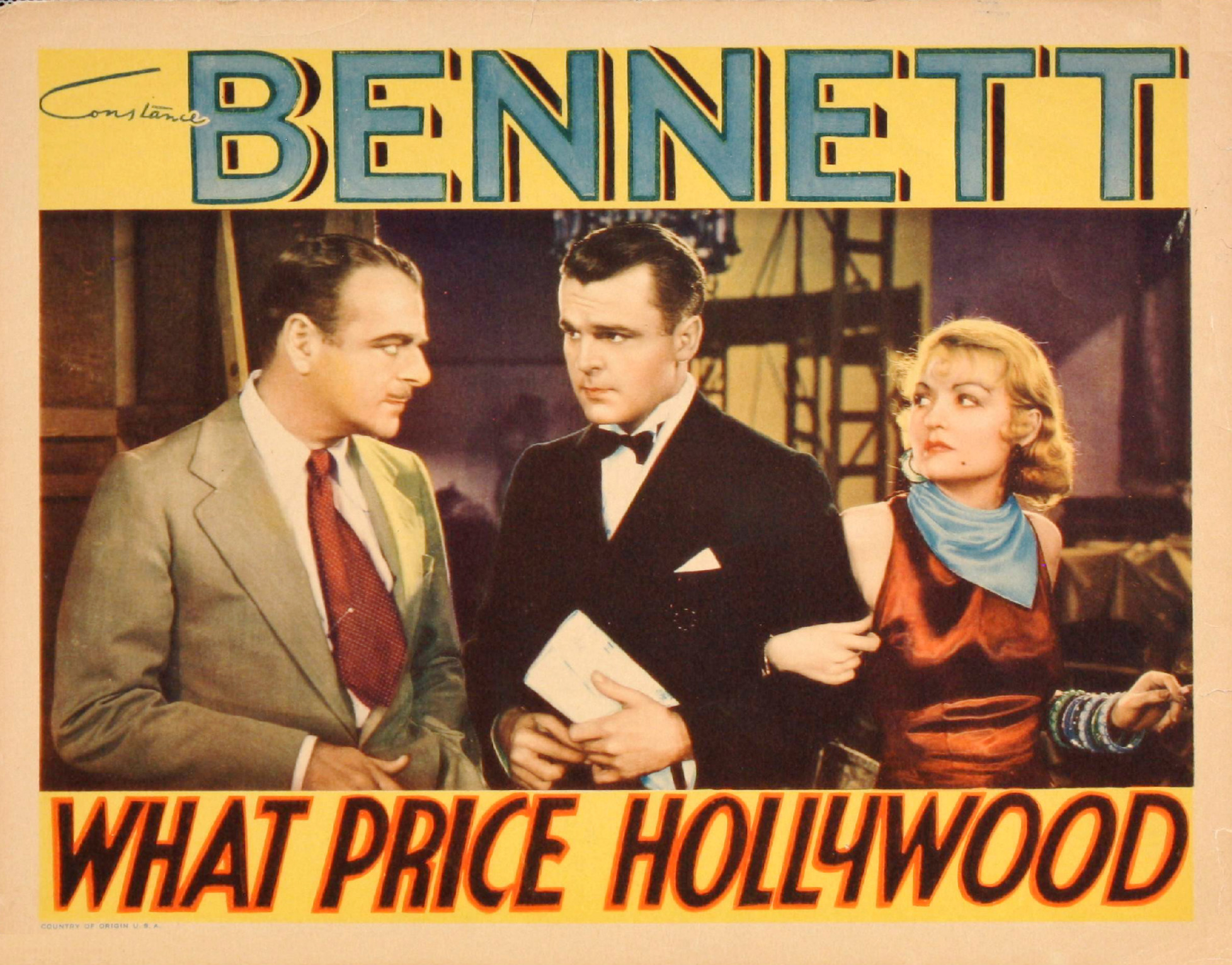 Lobby card for the 1932 film What Price Hollywood.